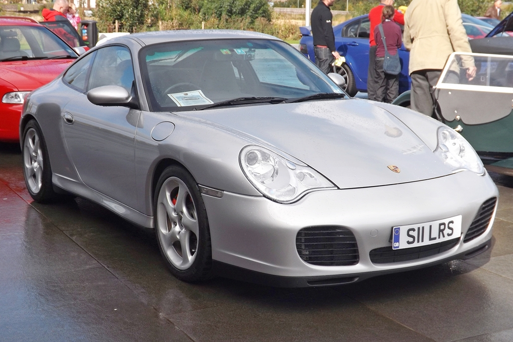 Porsche 996 Carrera coupe